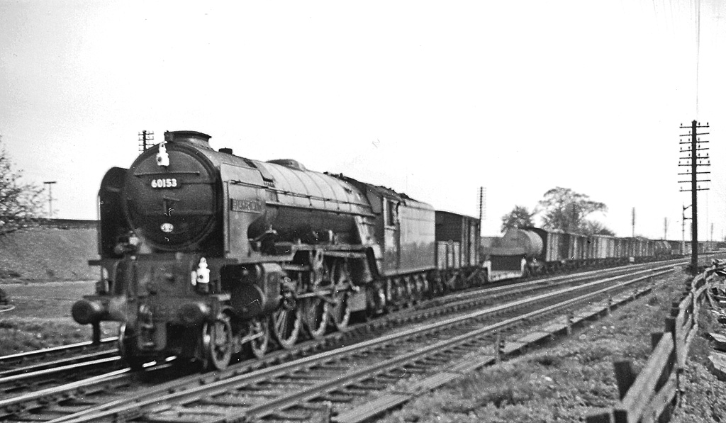 Northallerton: a Down freight heading for Tees-side View SW, on the upper line towards Northllarton station and the ex-North Eastern ECML to York and the South. This Class F freight is headed (perhaps unusually) by an A! Pacific (No. 60153 Flamboyant) has come off the main line from York, which is seen above heading for Darlington, on the Low Level avoiding-line and is heading for Eaglescliffe and probably Newport Yard, Thornaby. An enormous amount of freight traffic ran through Northallerton to Tees-side as well as along the ECMl, making Northallerton one of the busiest junctions in the whole country.